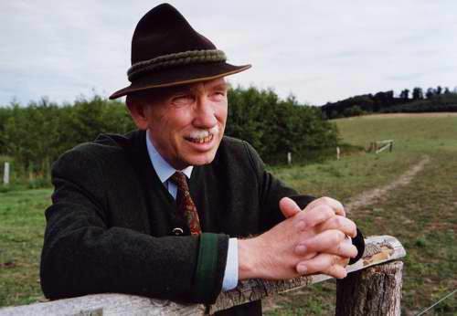 Haymo G. Rethwisch